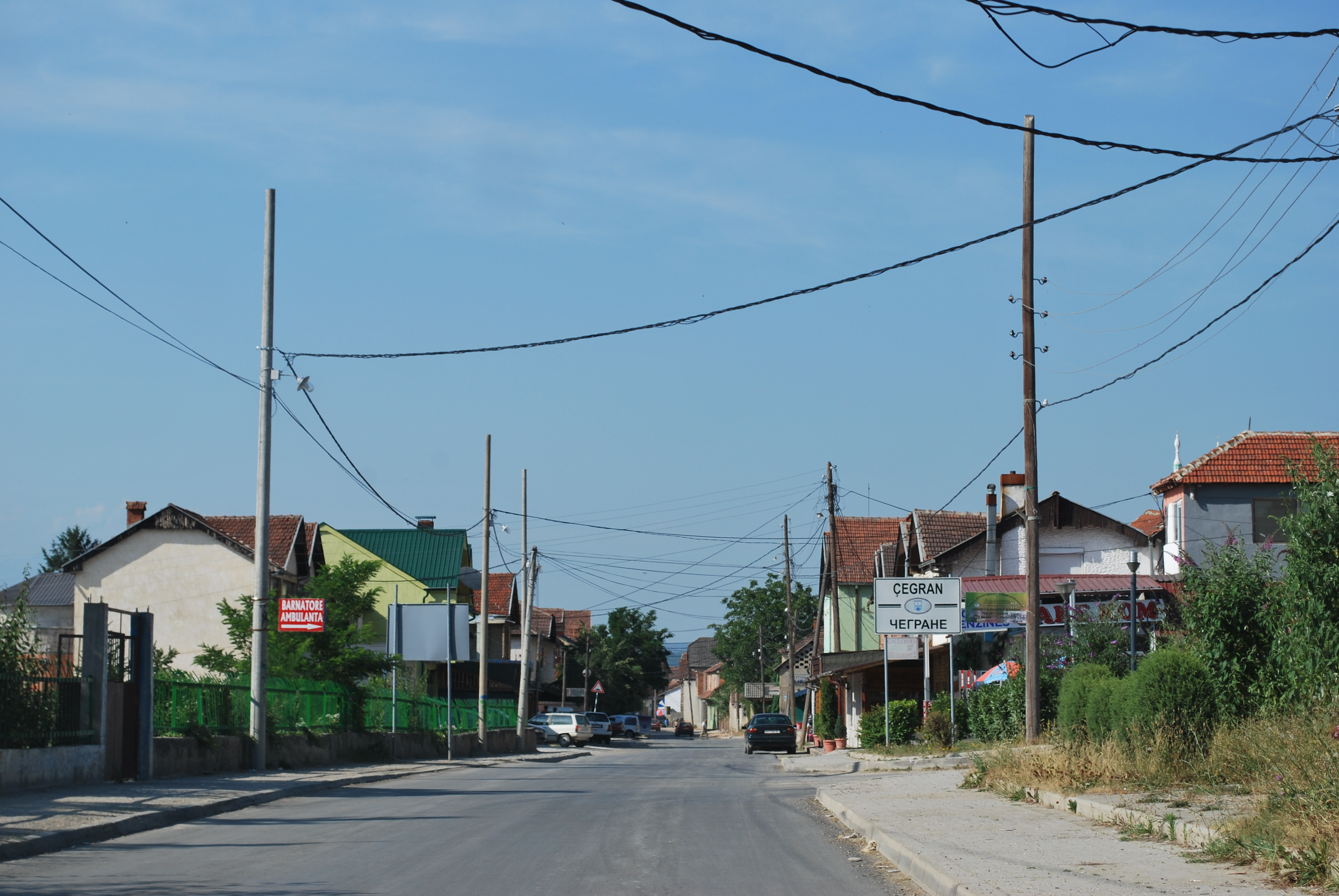 Čegrane near Gostivar, Macedonia